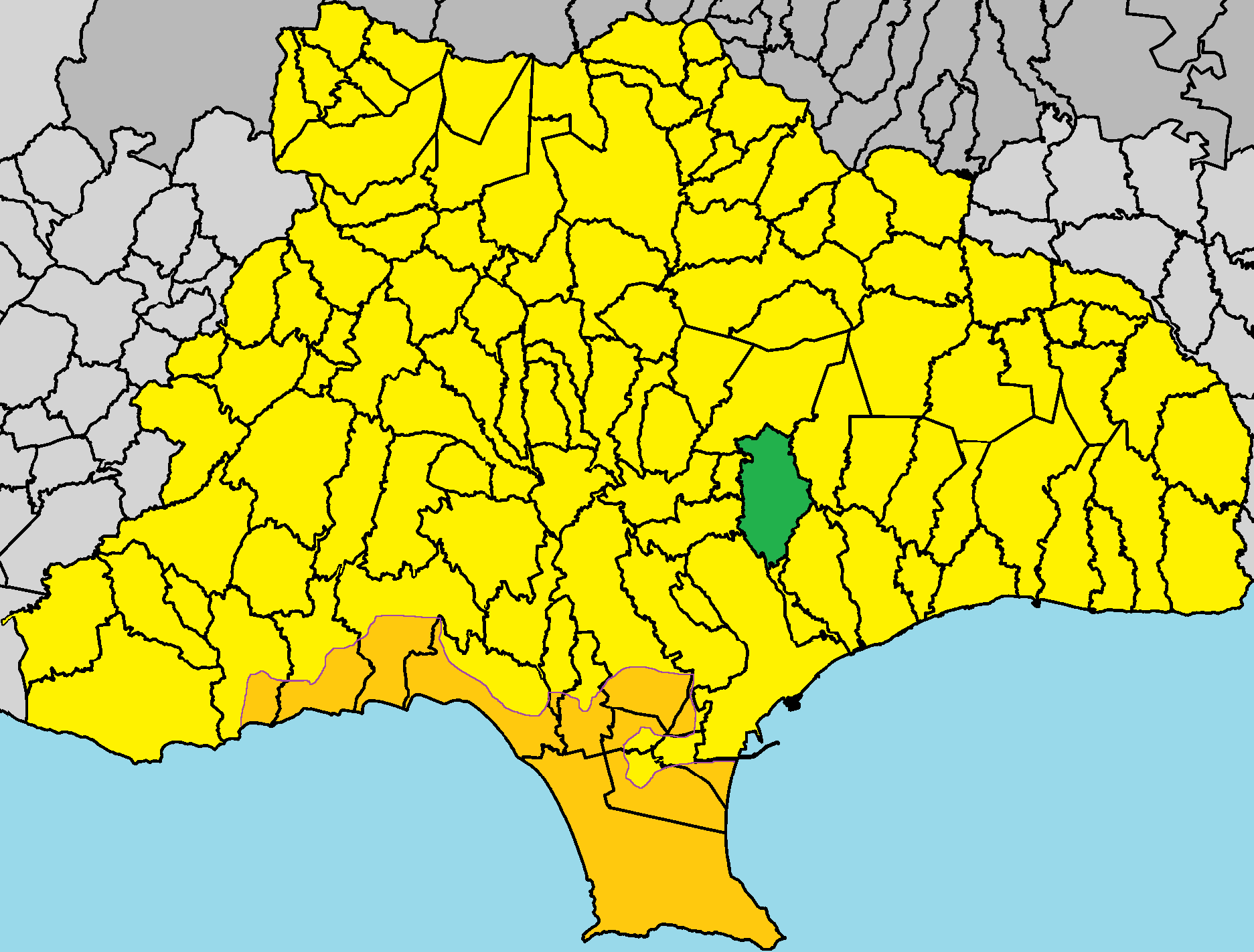 Fasoula, Limassol in Limassol District.